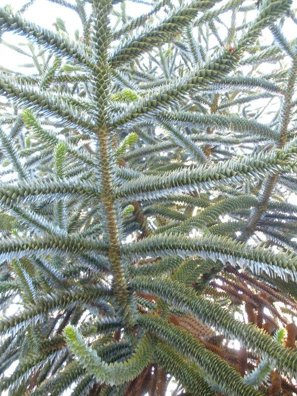 Young Araucaria araucana in Kew Gardens, England.